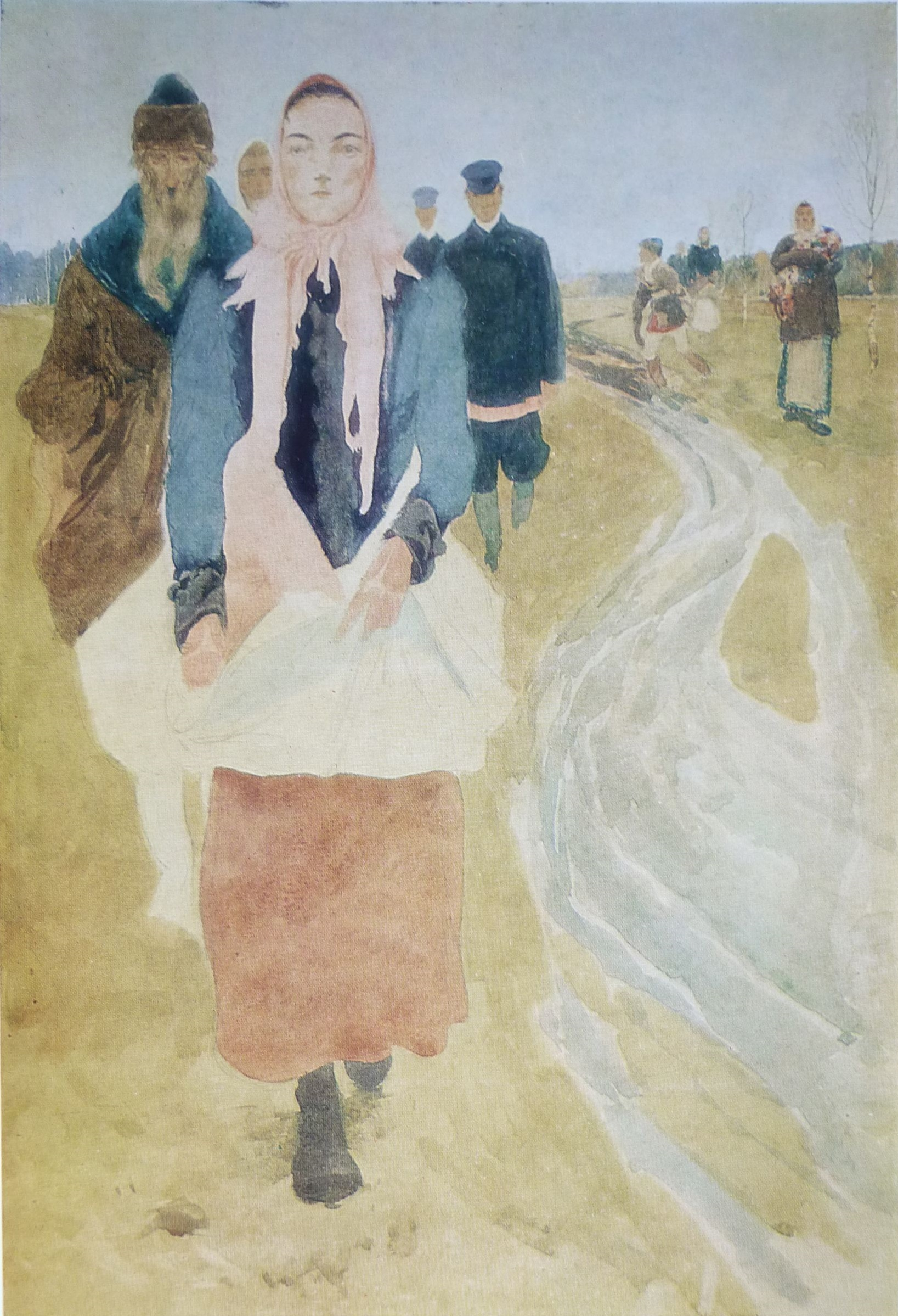 Return from a church on a public holiday (water color study by Andrei Ryabushkin, 1894)